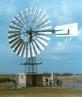 Windmotor